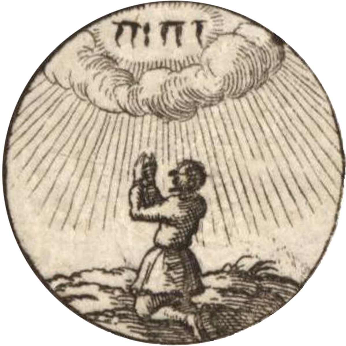 I cropped this from the image to the right. I release any rights I gained from cropping it into the public domain. :en:File:Wenceslas_Hollar_-_The_Augsburg_Confession_(State_2).jpg|thumb|Illustration of each of the 28 articles of the Augsburg Confession by Wenceslas Hollar.